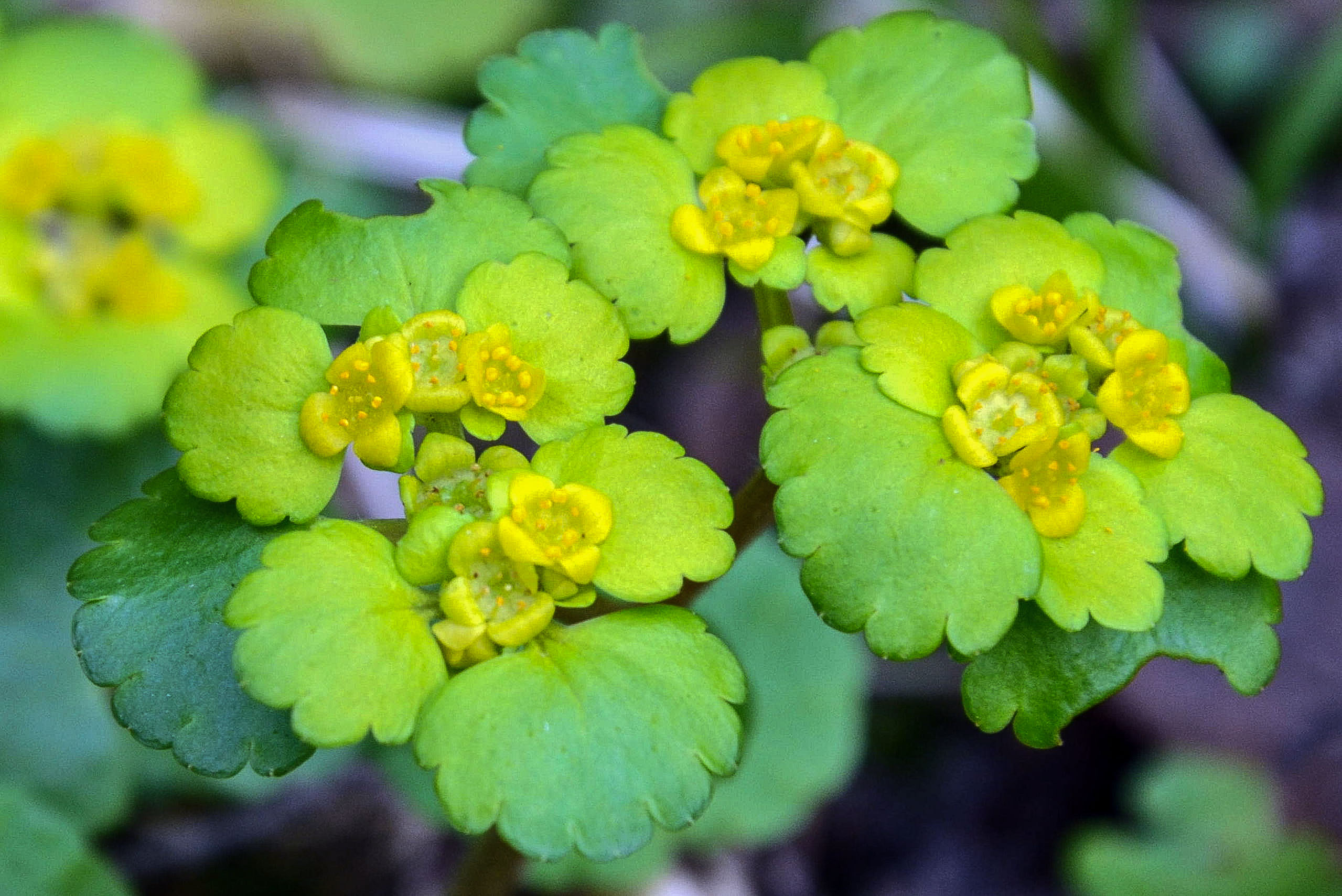 Chrysosplenium oppositifolium, March 2014 in Sanok